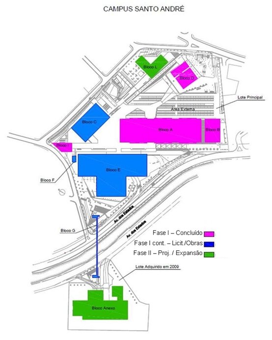 Hand drawing that outlines the Santo André city campus of the Universidade Federal do ABC, Brazil.